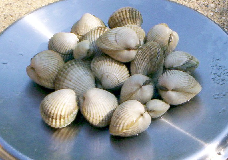 Cockles from the North Sea.